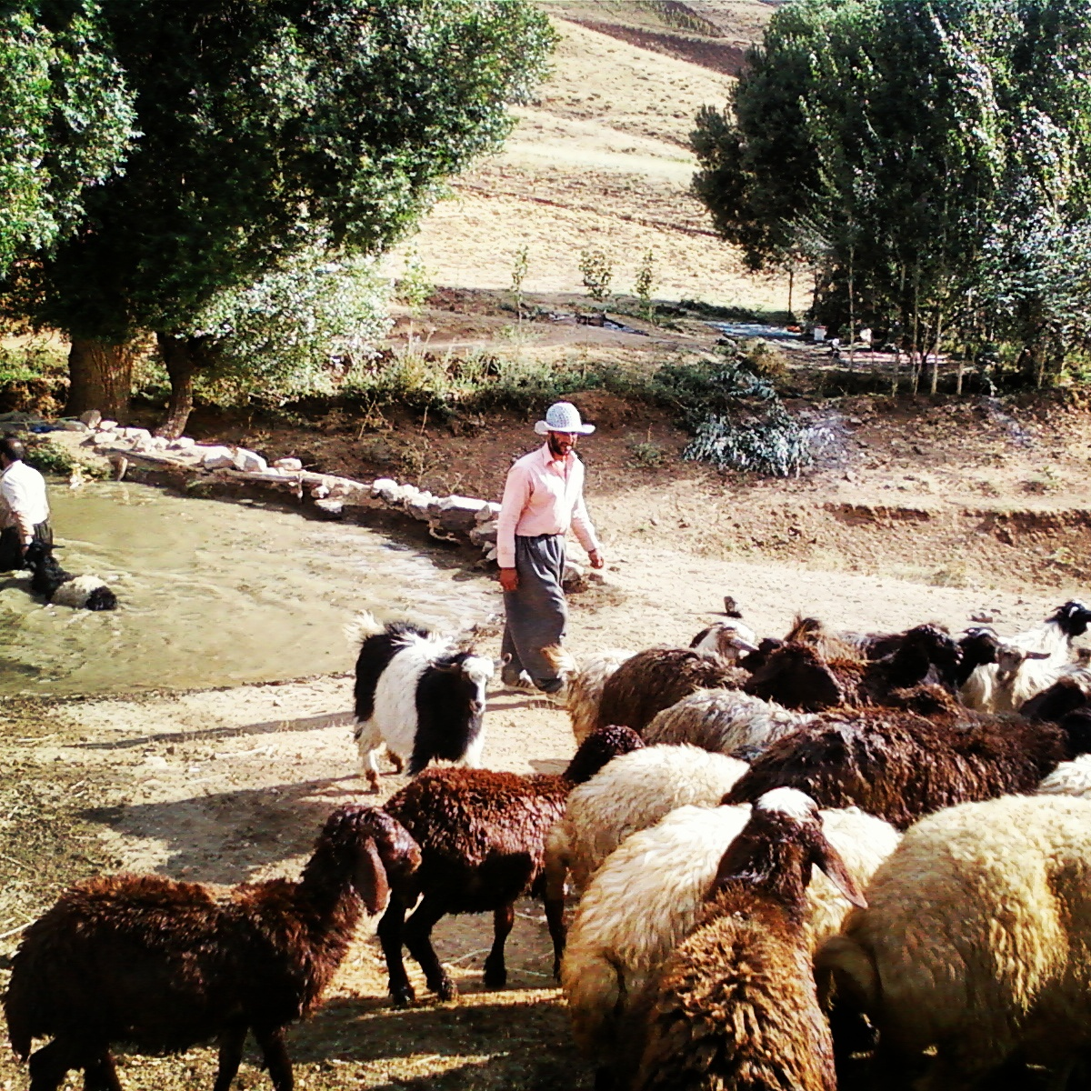 شستن گوسفندان در روستا